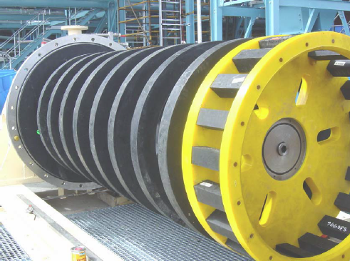 The inside of an IsaMill product separator.